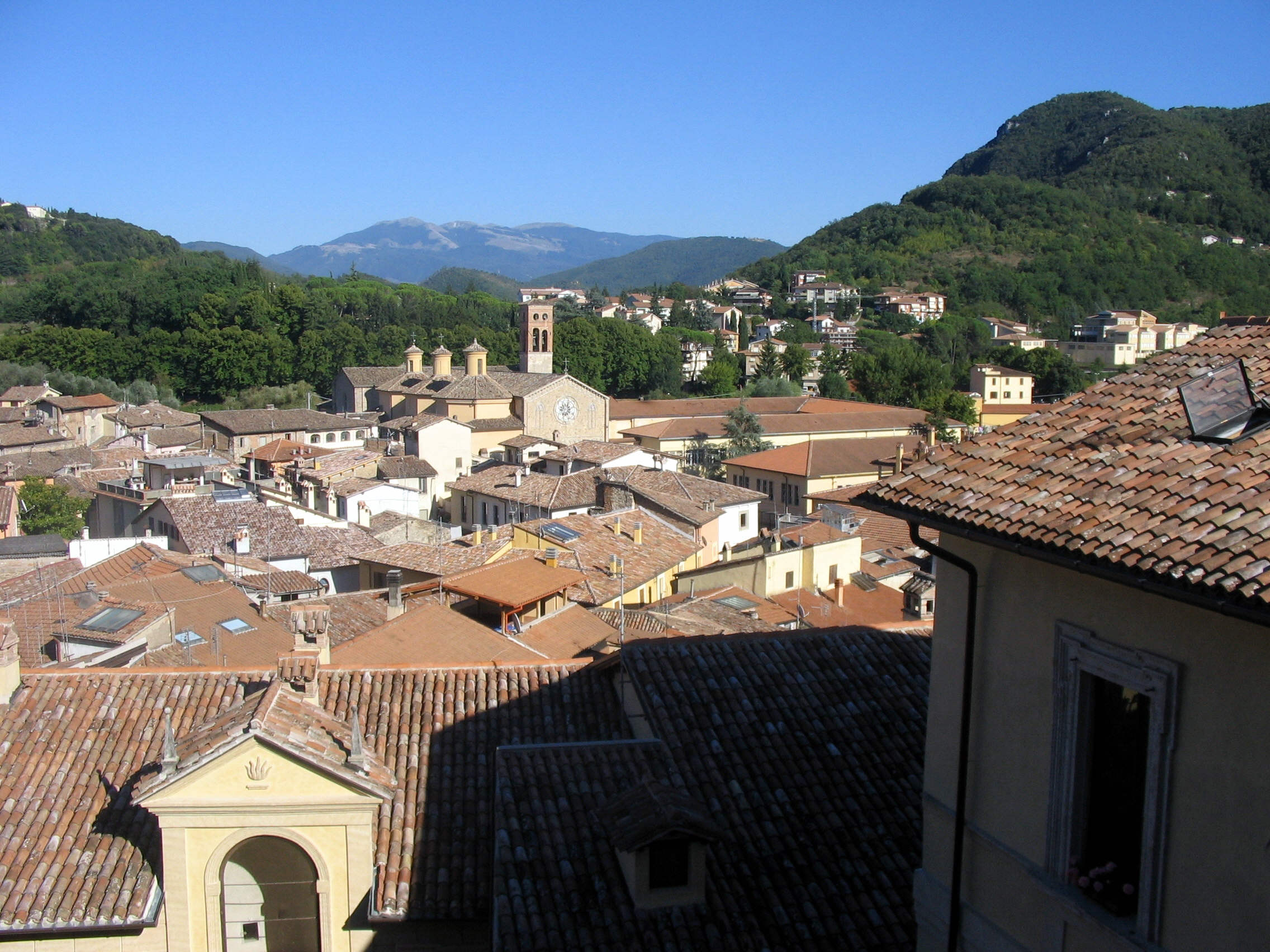 Roofs and (in the background) church, bell tower and cloister of Saint Francis - Rieti, Lazio, Italia